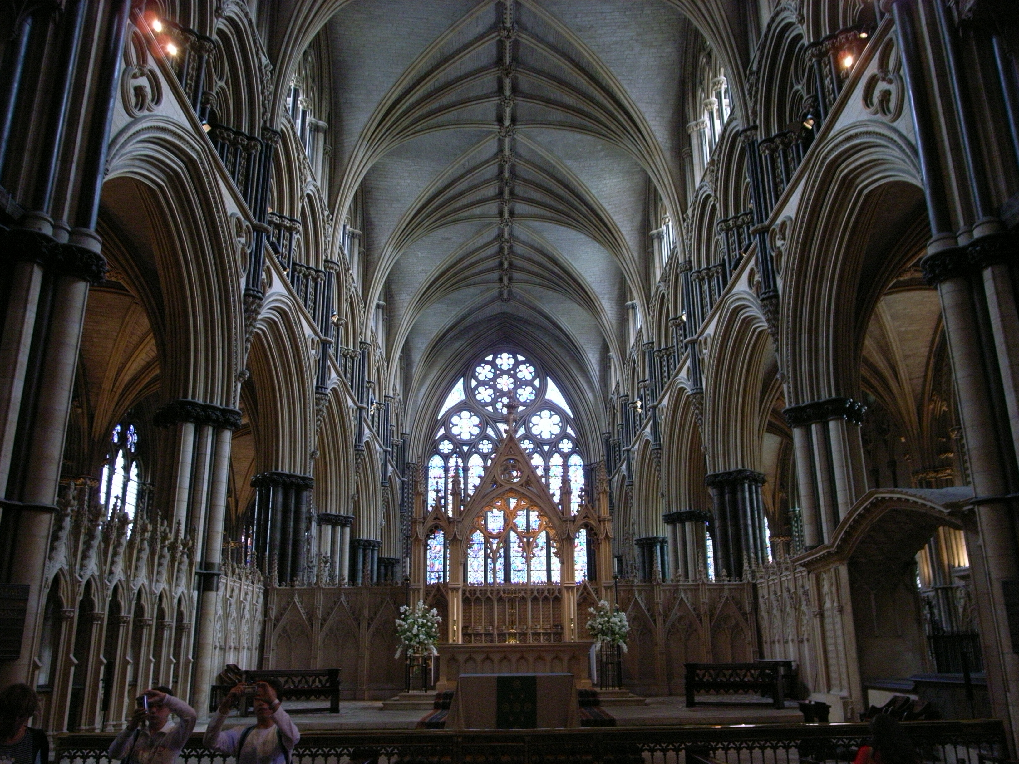 Lincoln Cathedral - the Angel Choir